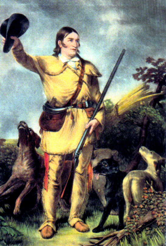 Portrait of Davy Crockett; Oil on canvas 24 x 16" (61 x 40.7 cm) [1]